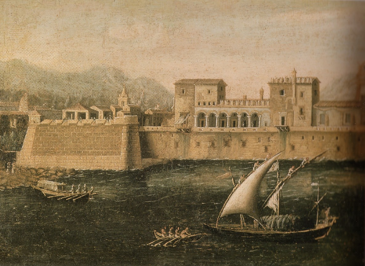 Ancient view of the Castello a Mare in Palermo